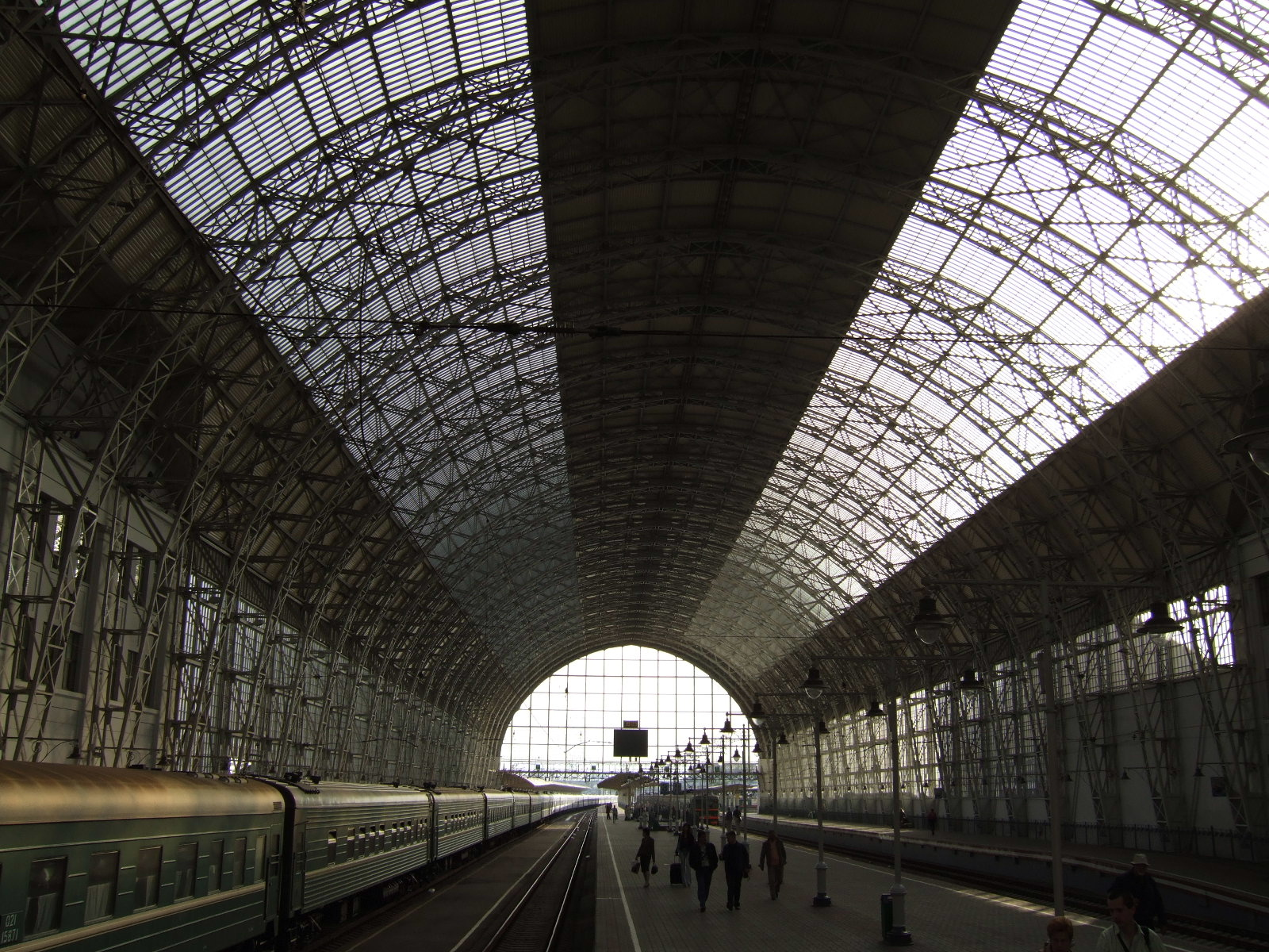 The 1918 Kiyevsky Rail Terminal, with transparent roof (skylights). Design by Vladimir Shukhov.